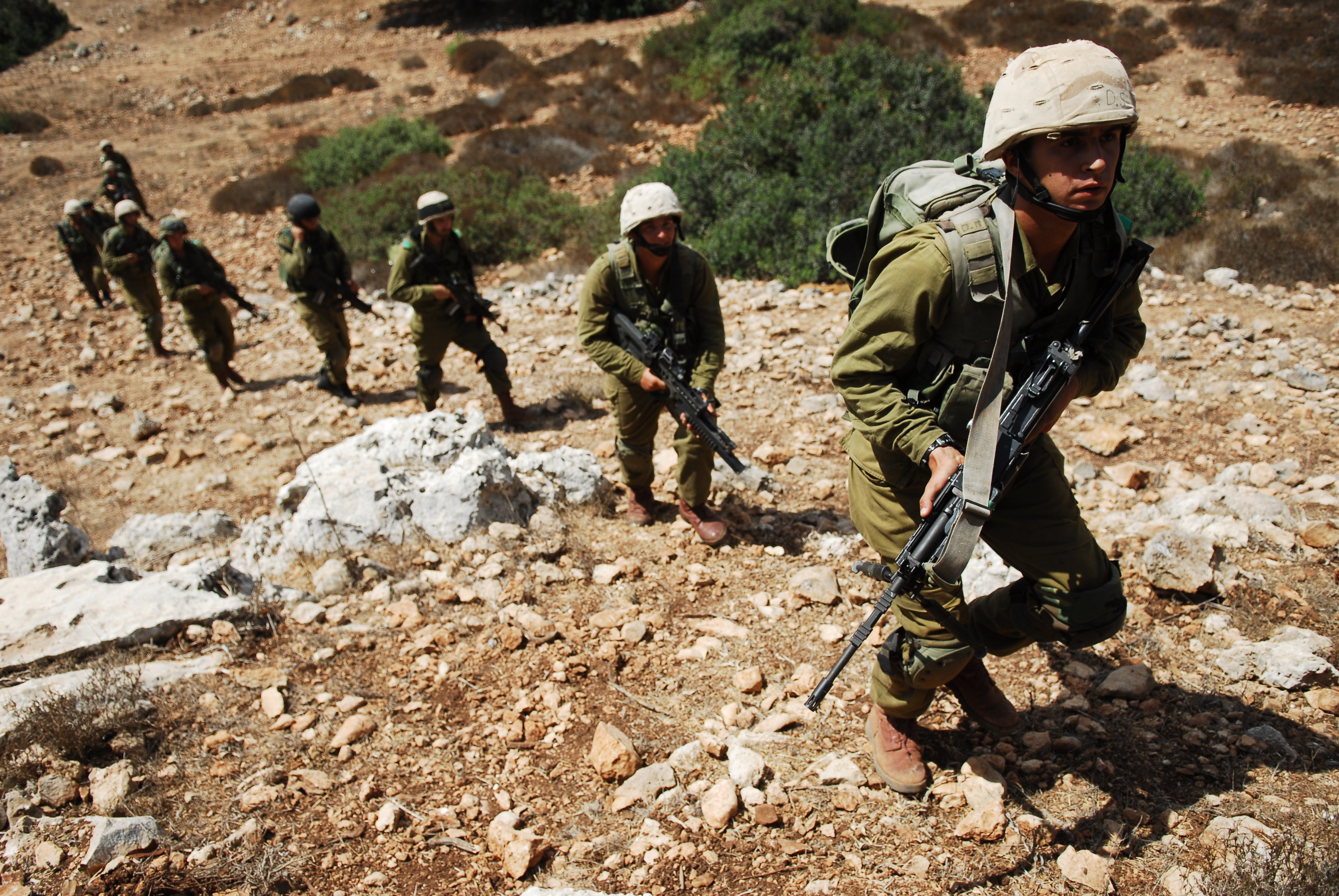 August 28, 2012 Class commanders practice camouflage in terrain during an exercise at Elyakim training base. Photo: Tal Manor, IDF Spokesperson's Unit The Israel Defense Forces Facebook • blog • Twitter